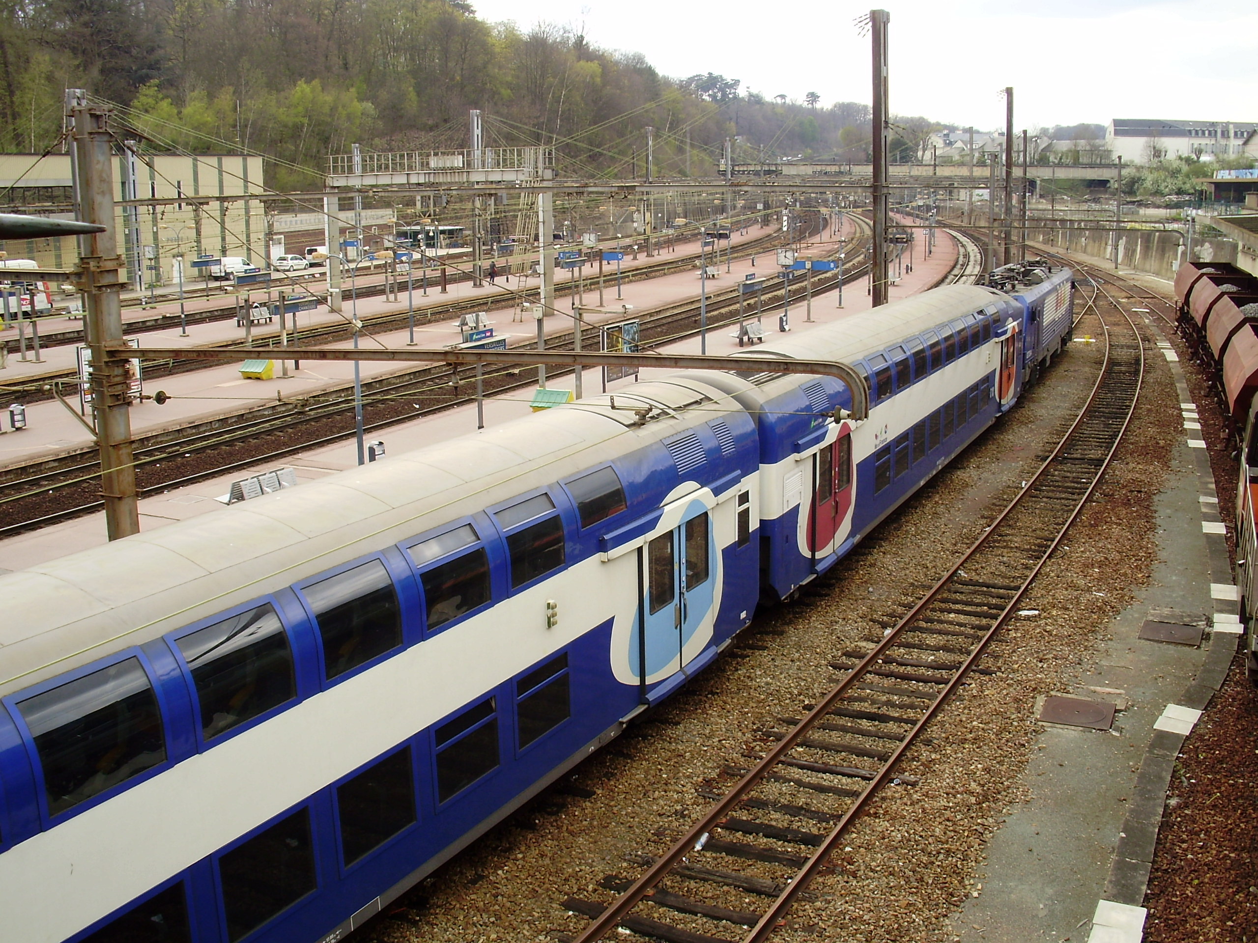 Versailles-Chantiers station - platforms with a commuter train, Yvelines, France